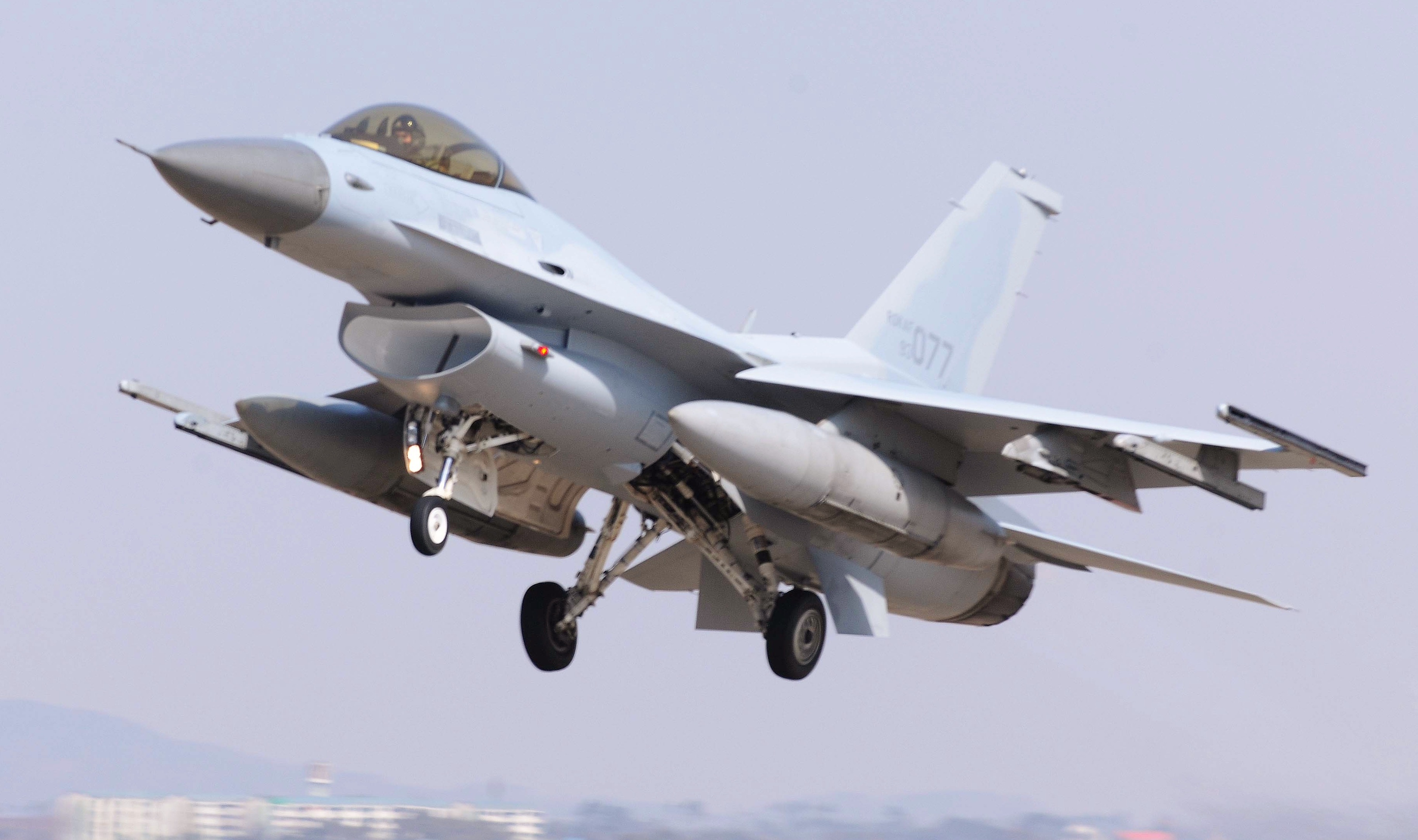 ROKAF F-16